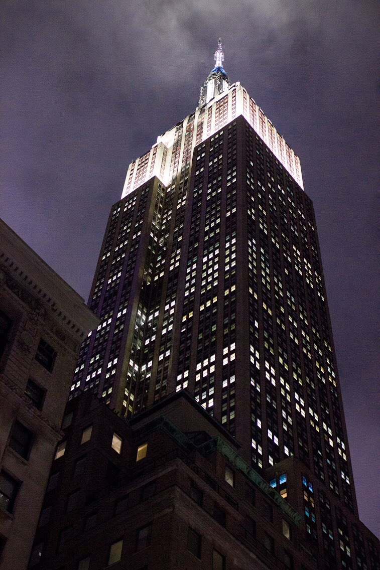 Photo of the Empire State Building at Night